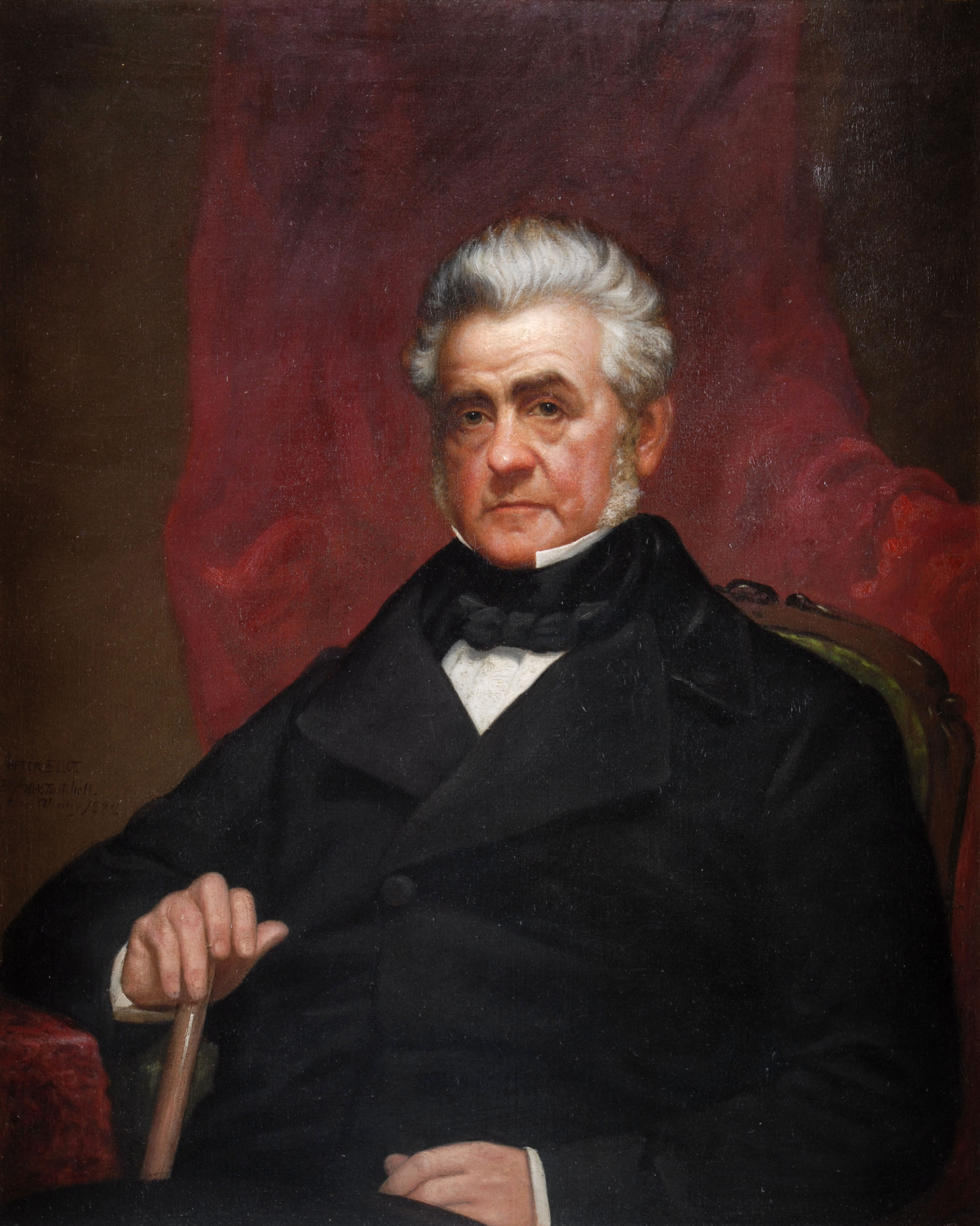 Official Gubernatorial portrait of New York Governor William C. Bouck.